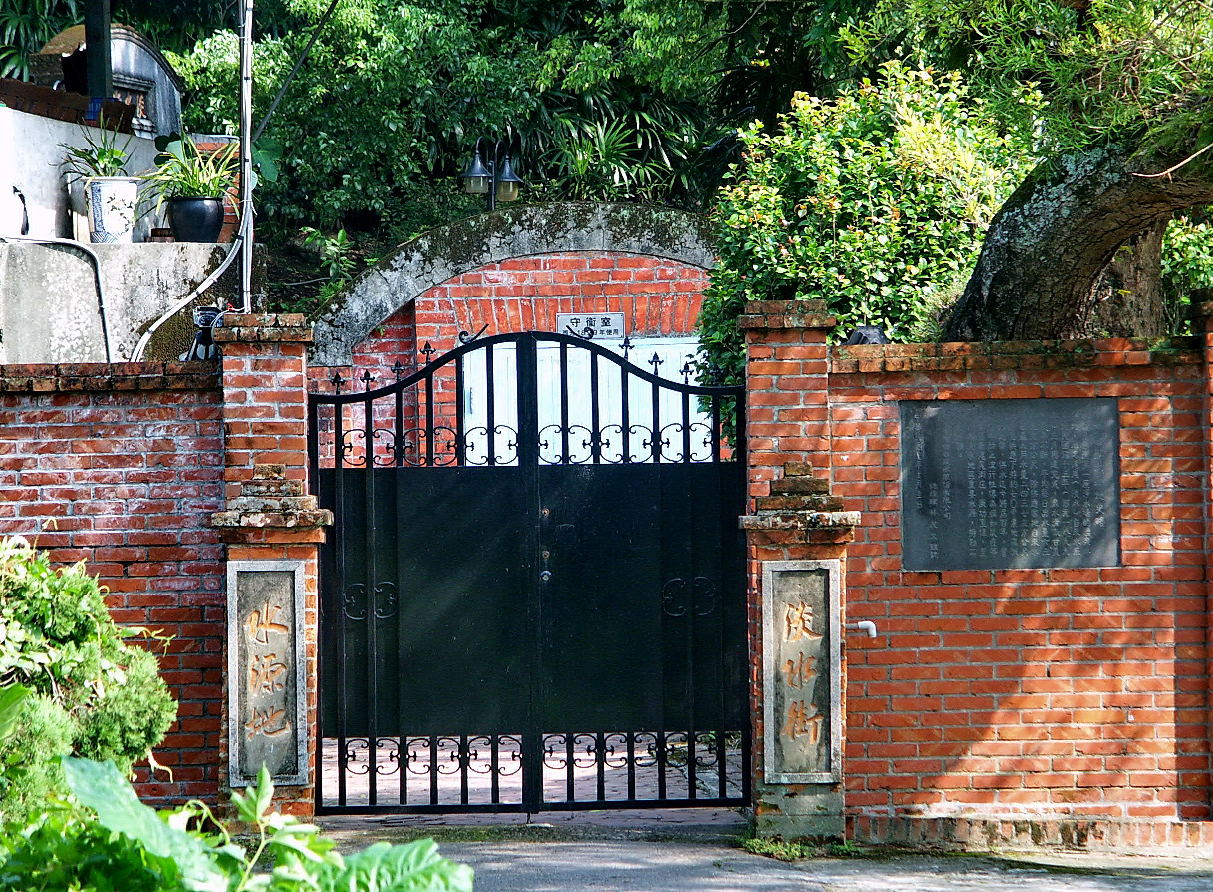 淡水水源地 Damsui Head-Water Point